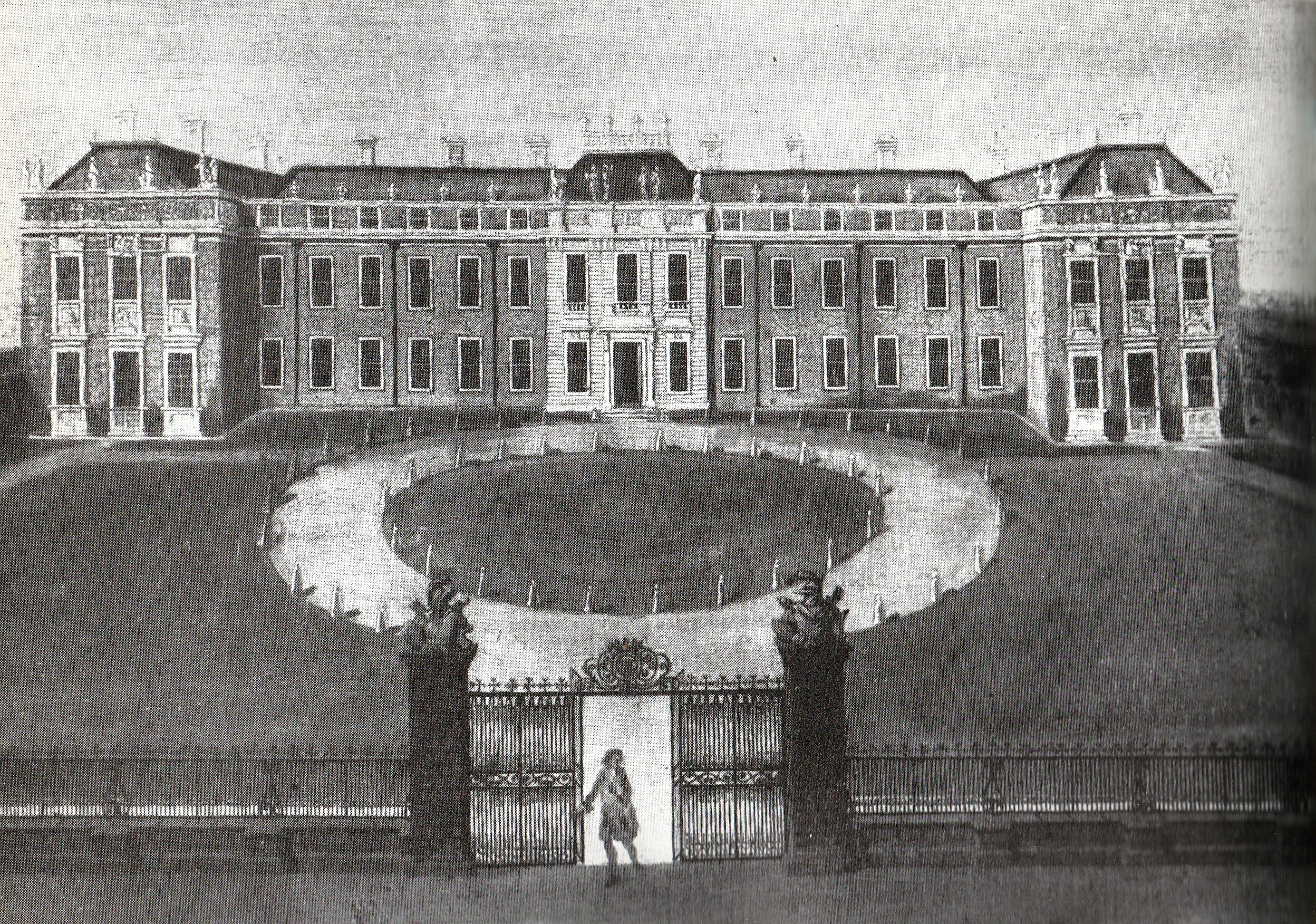 Petworth House in Sussex, portrait painted in about 1700, painting identified by Sir Anthony Blunt in the collection of the Duke of Rutland at Belvoir Castle. A similar image is included in Laguerre's wall-painting on the Grand Staircase at Petworth. It shows the original house re-built between 1688 and 1696 by Charles Seymour, 6th Duke of Somerset (1662-1748), who inherited it from his wife. Shows evidence of French chateau style, with original central dome, now lost. Horace Walpole called it "in the style of the Tuileries". Today the roofline is lower and flat, possibly following the fire of 1714 and subsequent repairs. Statues on the top of the walls now lost and entrance front moved to rear.